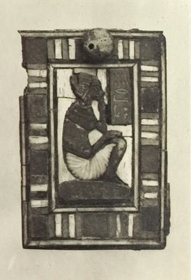 Harry Burton: Tutankhamun tomb photographs: a photographic record in 5 albums containing 490 original photographic prints ; representing the excavations of the tomb of Tutankhamun and its contents. Vol. 3